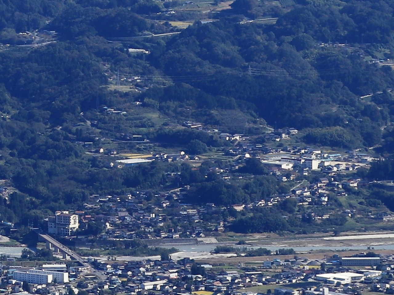 Ｉｉｄａ City Shimohisakata Elementary School and Suijin Bridge (Route 256) seen form Mount Kazakoshi (Mount Kokuzo) in Iida, Nagano Prefecture, Japan.